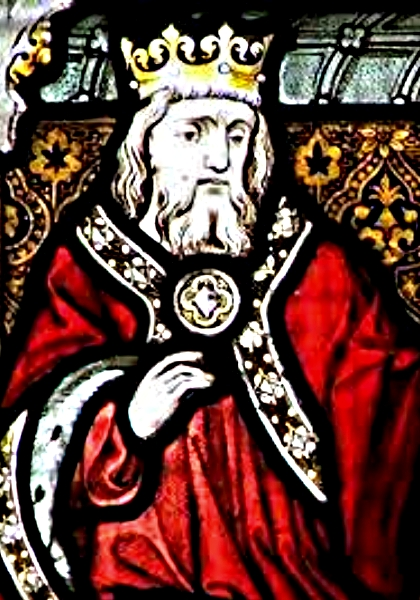 Arnulf the Great, Count of Flanders